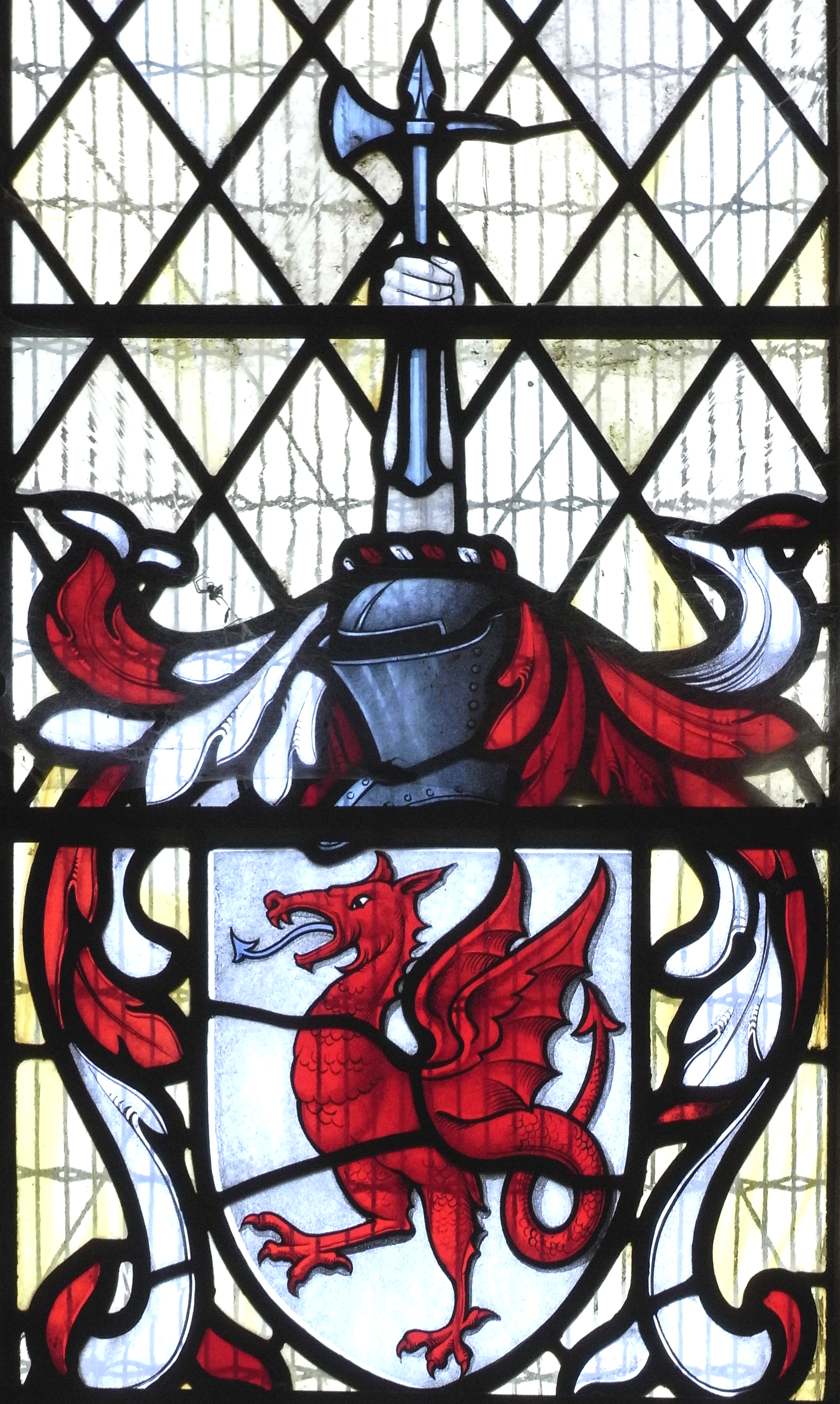 Armorials of the Drake family of Ash in the parish of Musbury, Devon: Argent, a wyvern wings displayed and tail nowed gules. Crest: A dexter cubit arm couped at the elbow proper holding a battle-axe sable. Detail from stained glass window in Musbury Church.